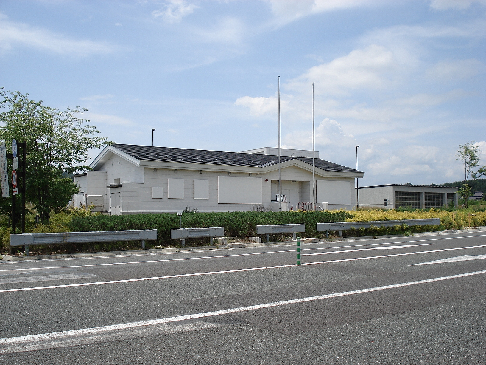 Former office building at Towa Interchange on the Kamaishi Expressway, in Hanamaki City, Iwate Prefecture, Japan